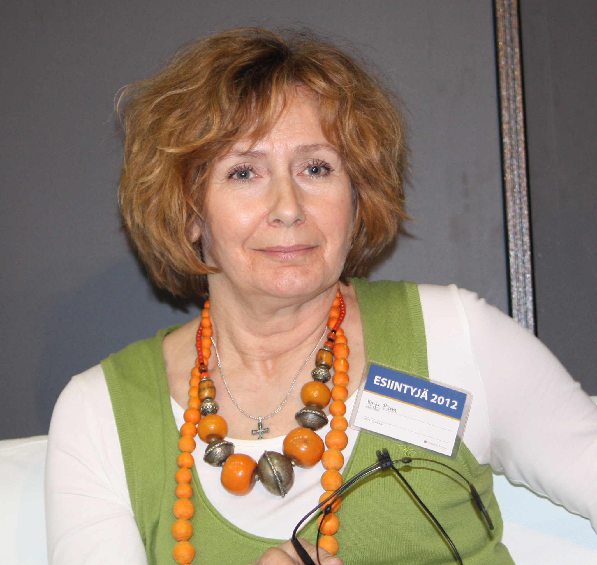 Finnish writer Kaija Pispa at Tampere Book Fair 2012.